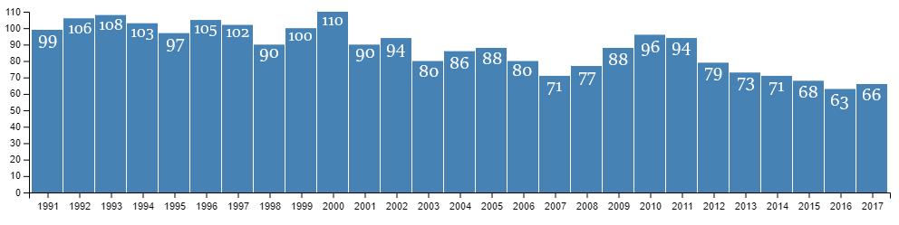 Population of Greenlandic settlement Ikamiut in 1991-2017